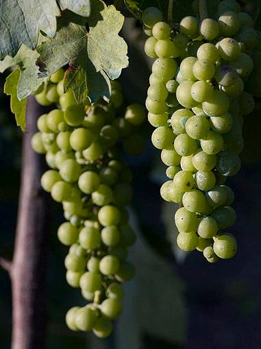 Fiano grapes growing in the Italian wine region of Campania in mid-July prior to color change and maturity of veraison.